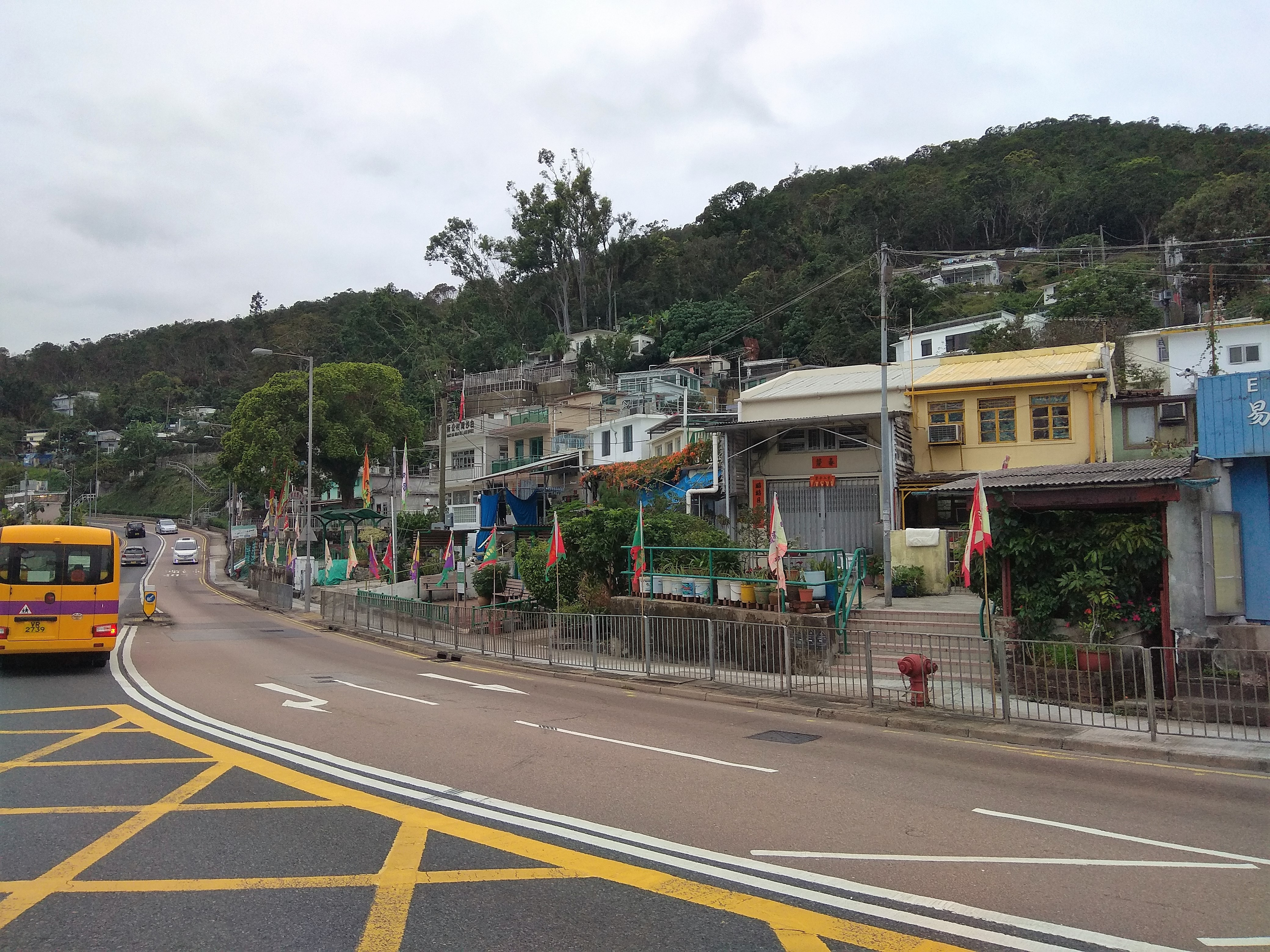 Kau Sai San Tsuen, Sai Kung District, Hong Kong